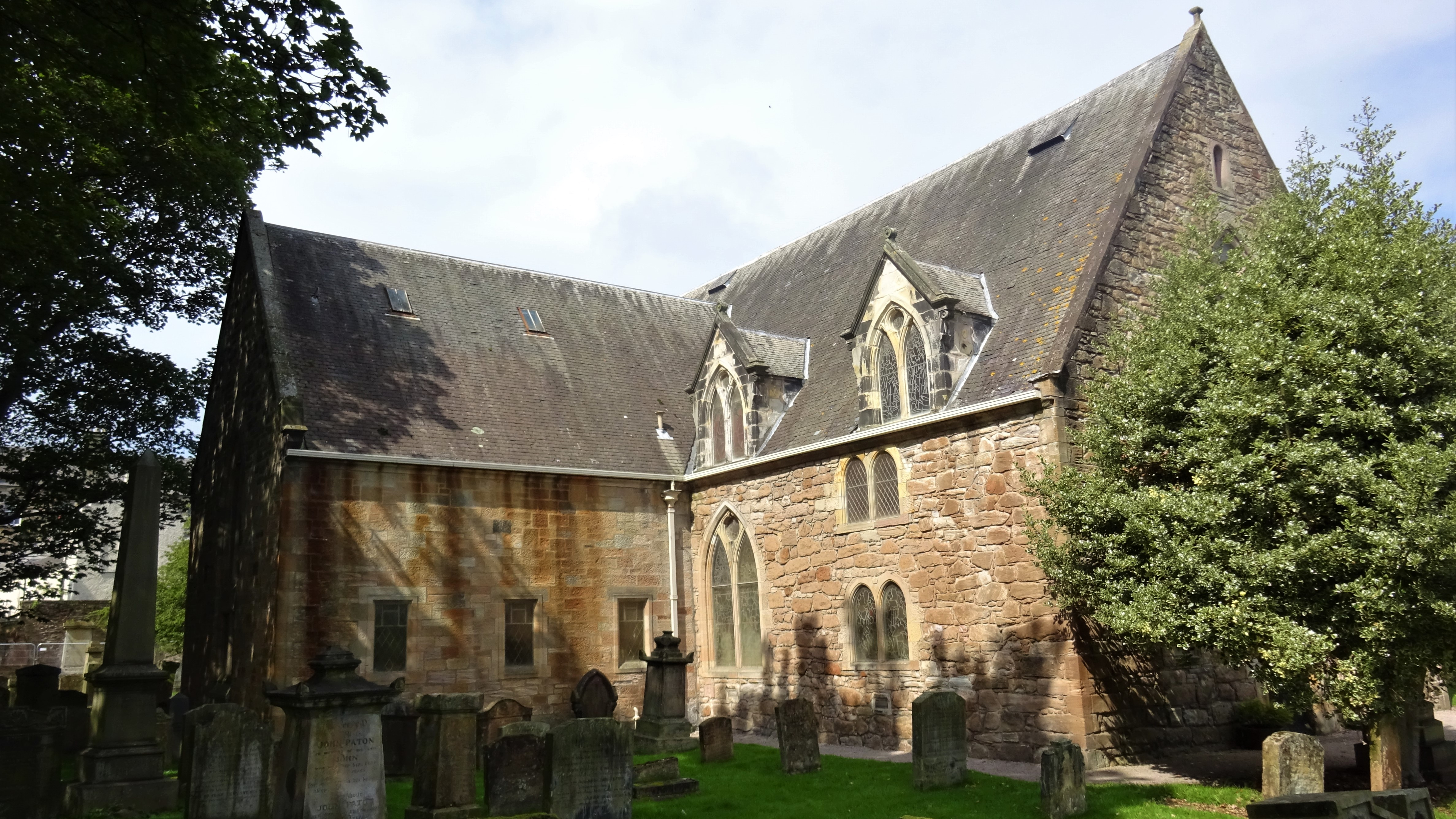 Auld Kirk of St John the Baptist, Ayr, Scotland. External View.